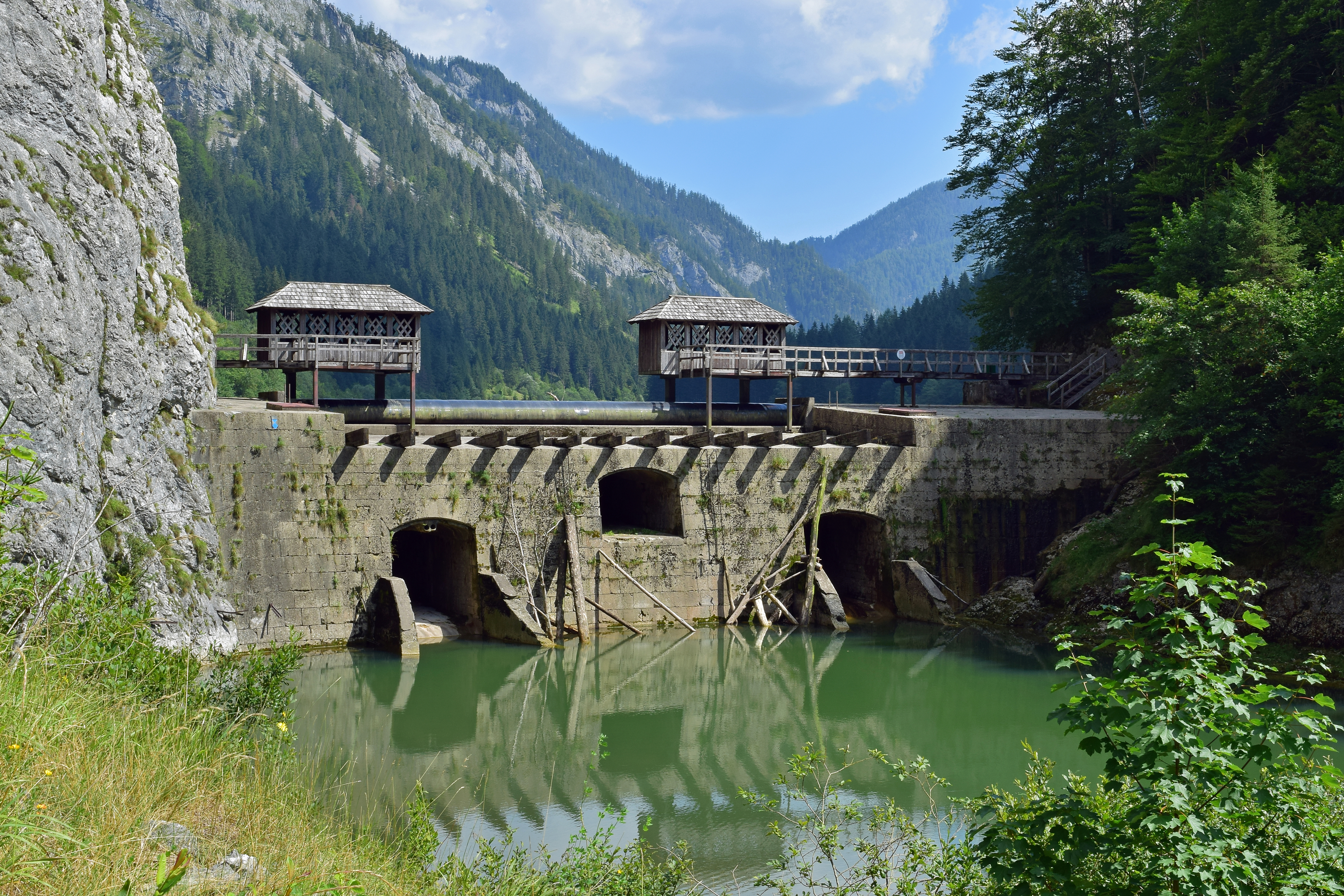 Presceny logging dam on Salza river, Weichselboden, Mariazell, Styria / Austria